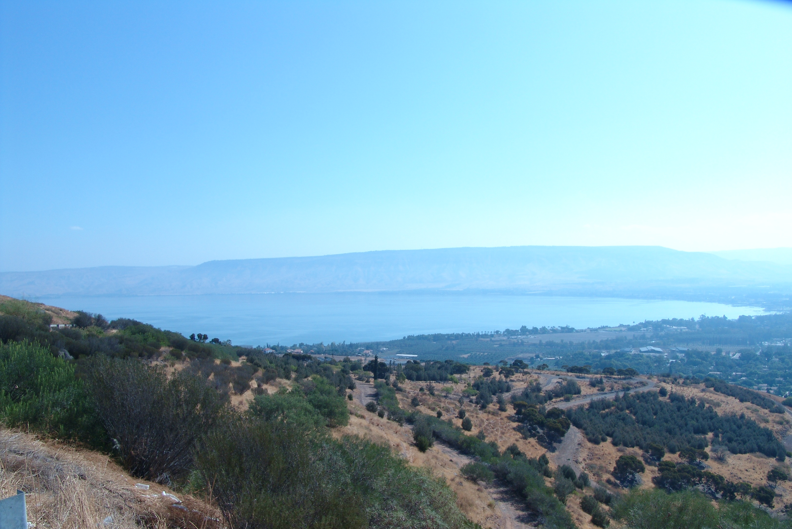 Geography of Israel